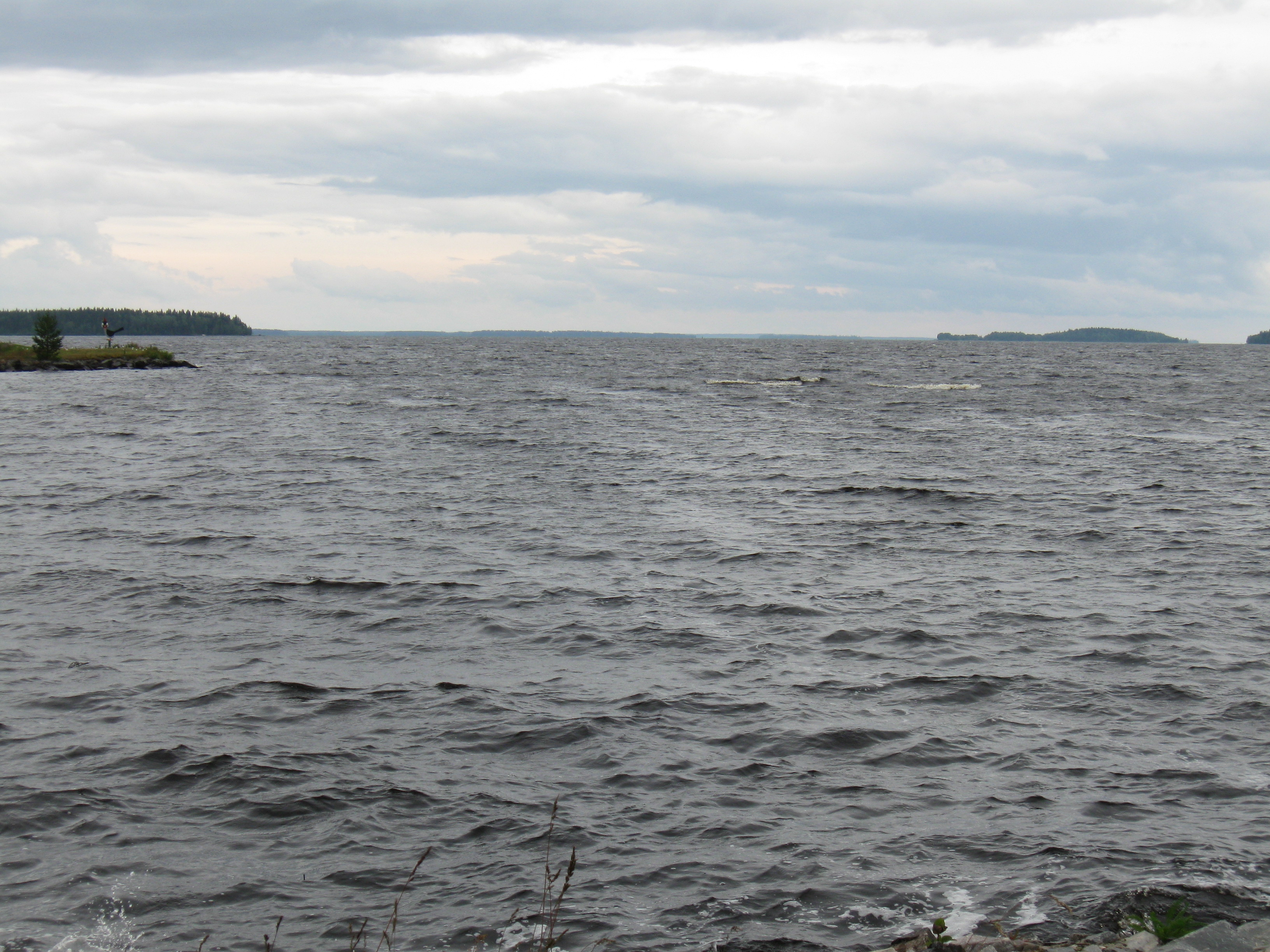 The northenmost Paltaselkä area of the Oulujärvi lake in Paltamo, Finland, seen towards southwest.